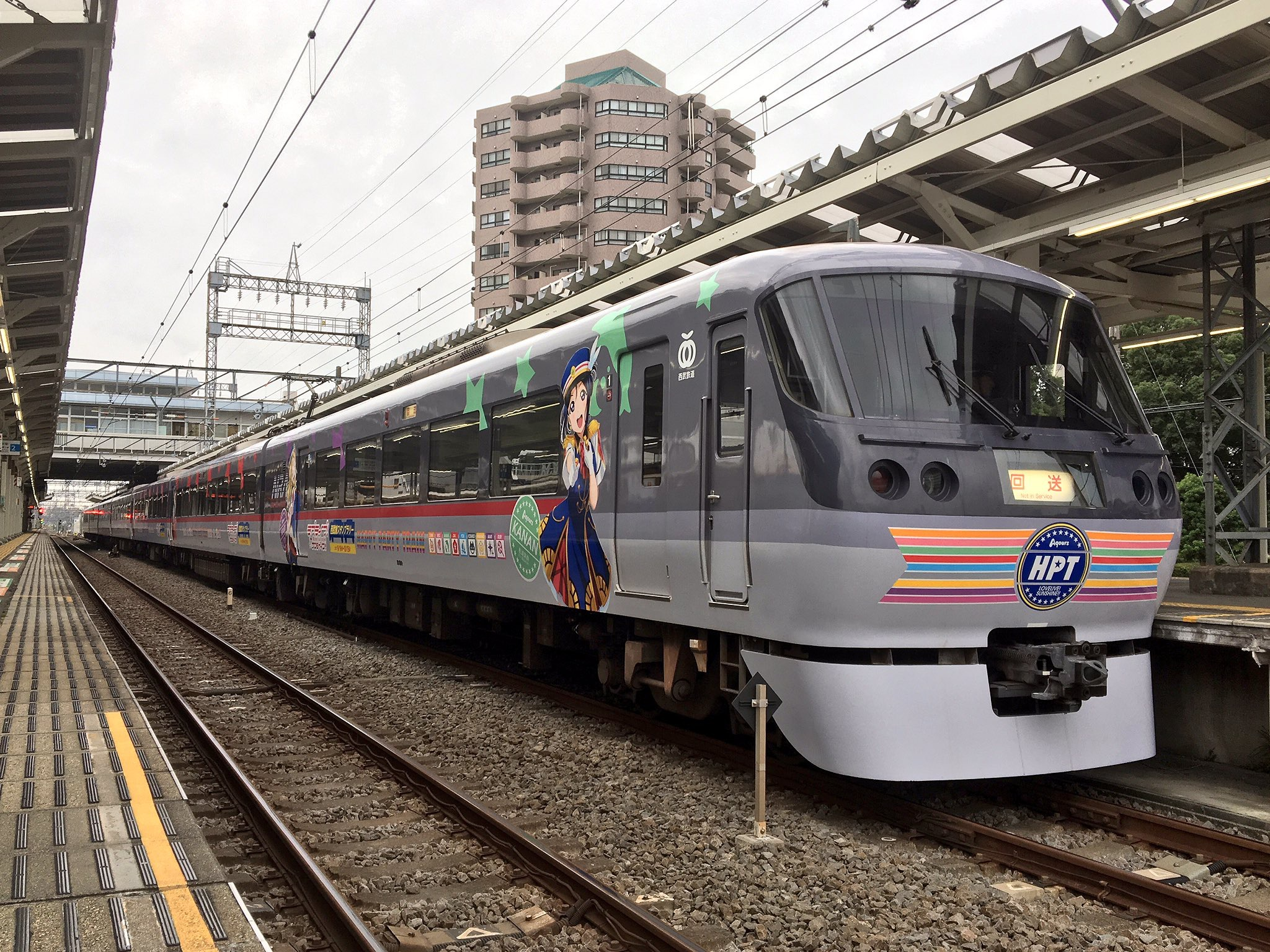 Seibu 10000 series EMU set 10009 in a special "Love Live! Sunshine!!" promotional livery at Kotesashi Station in Saitama Prefecture, Japan